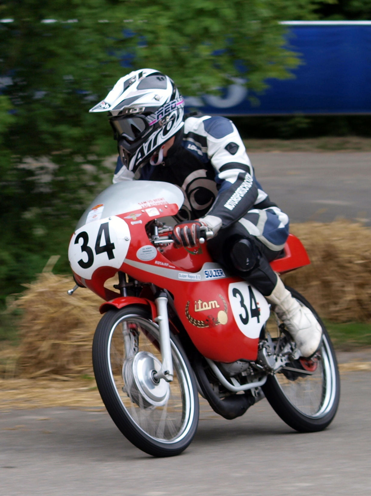 Photographed at Rockanje, The Netherlands.